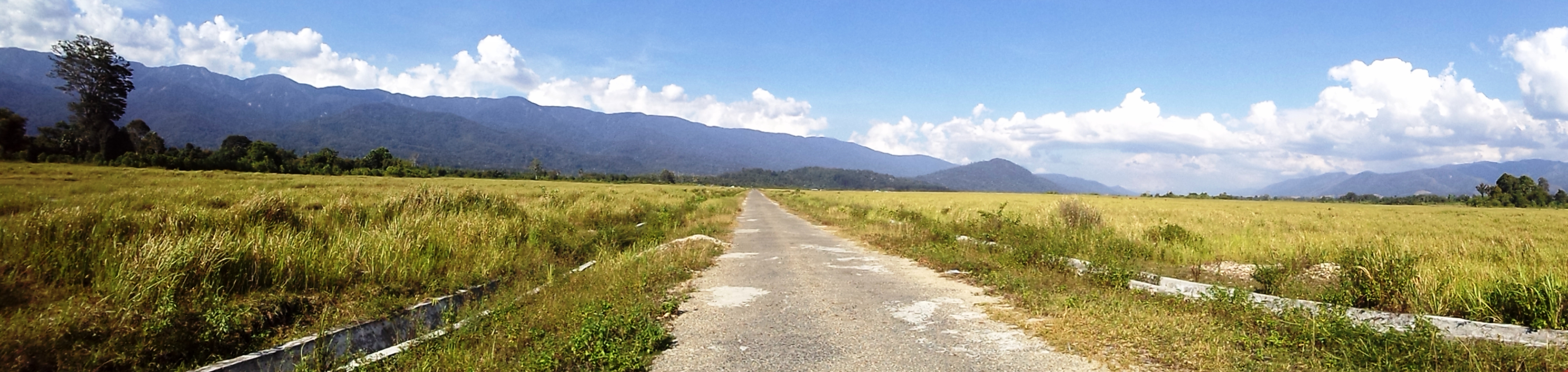 A panoramic view of the eastern central region of the Kebar Valley, with a road that leads to other villages in the valley.